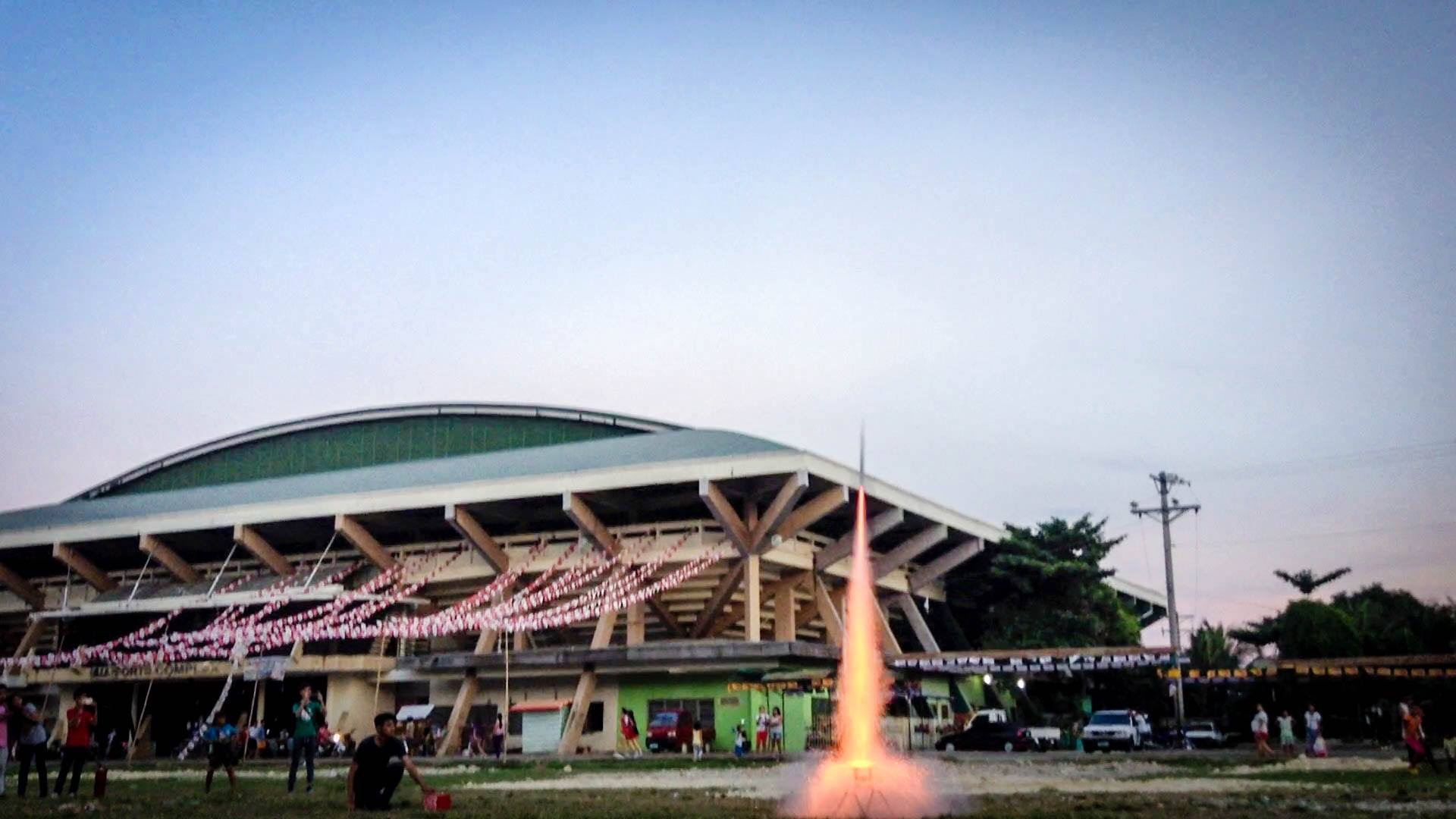 A spectacular view of a model rocket launch built by high school students from St. Cecilia’s College - Cebu at Minglanilla Central School Oval Ground with the Minglanilla Sports Complex as its background.